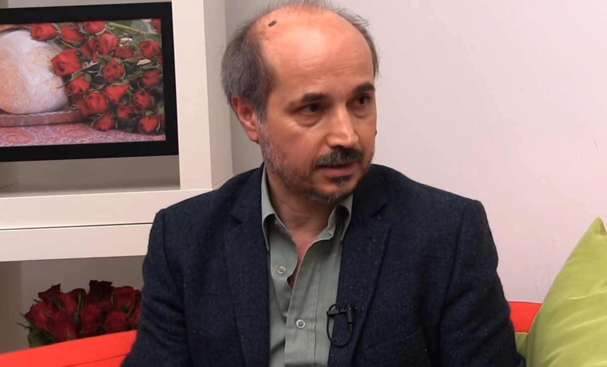 Bahram Soroush on the Bread and Roses TV programme with Maryam Namazie and Fariborz Pooya in 2014.